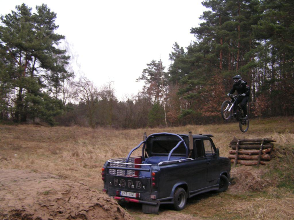 Jump over the car.